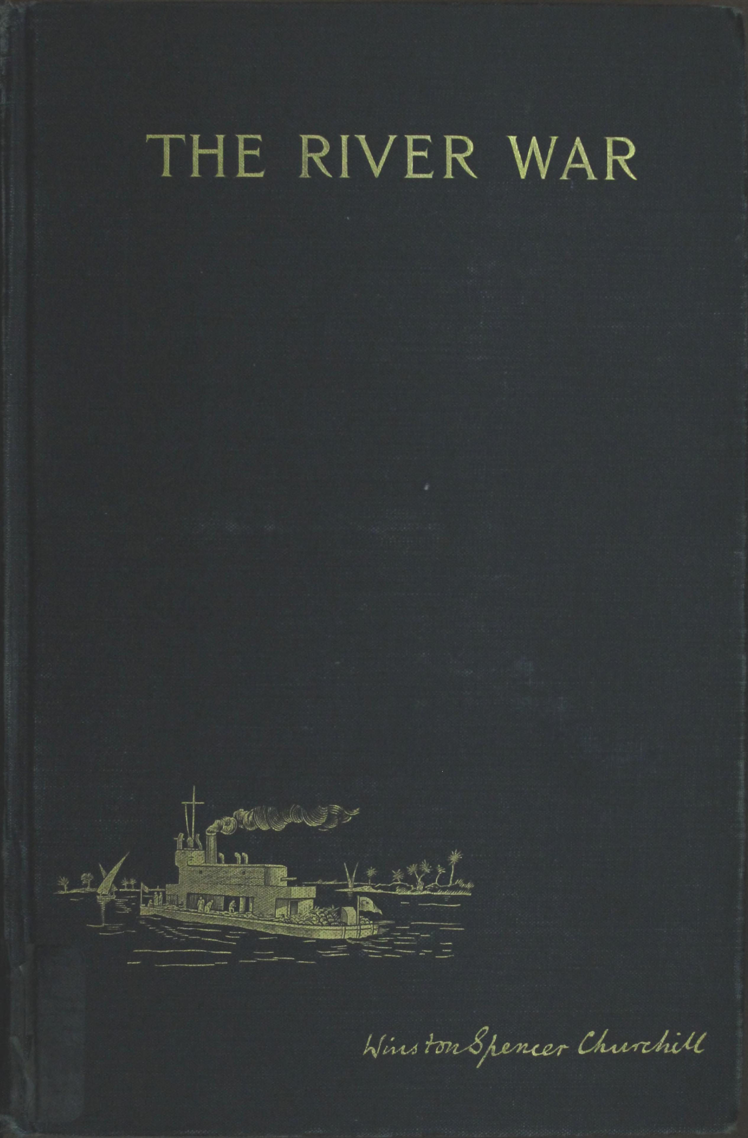 The front cover of The River War Vol 2, 1899 by Winston Churchill